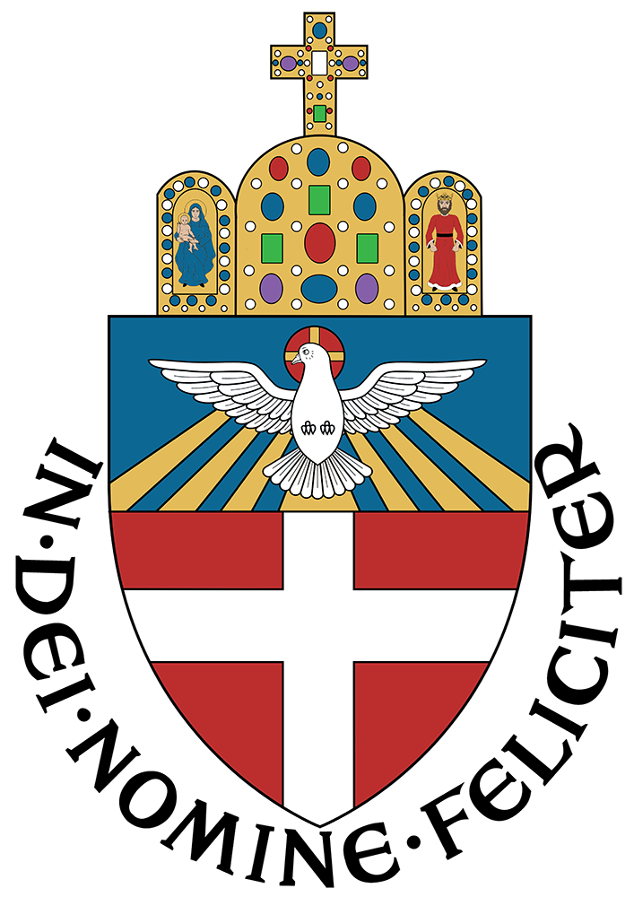 Modern version of the coat of arms of Radboud University Nijmegen (The Netherlands) in color.